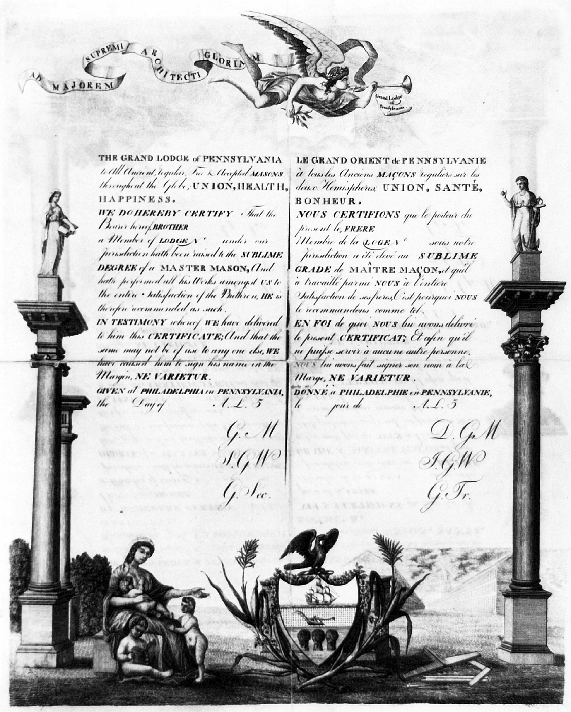 Grand Lodge of Pennsylvania membership certificate in English and French.